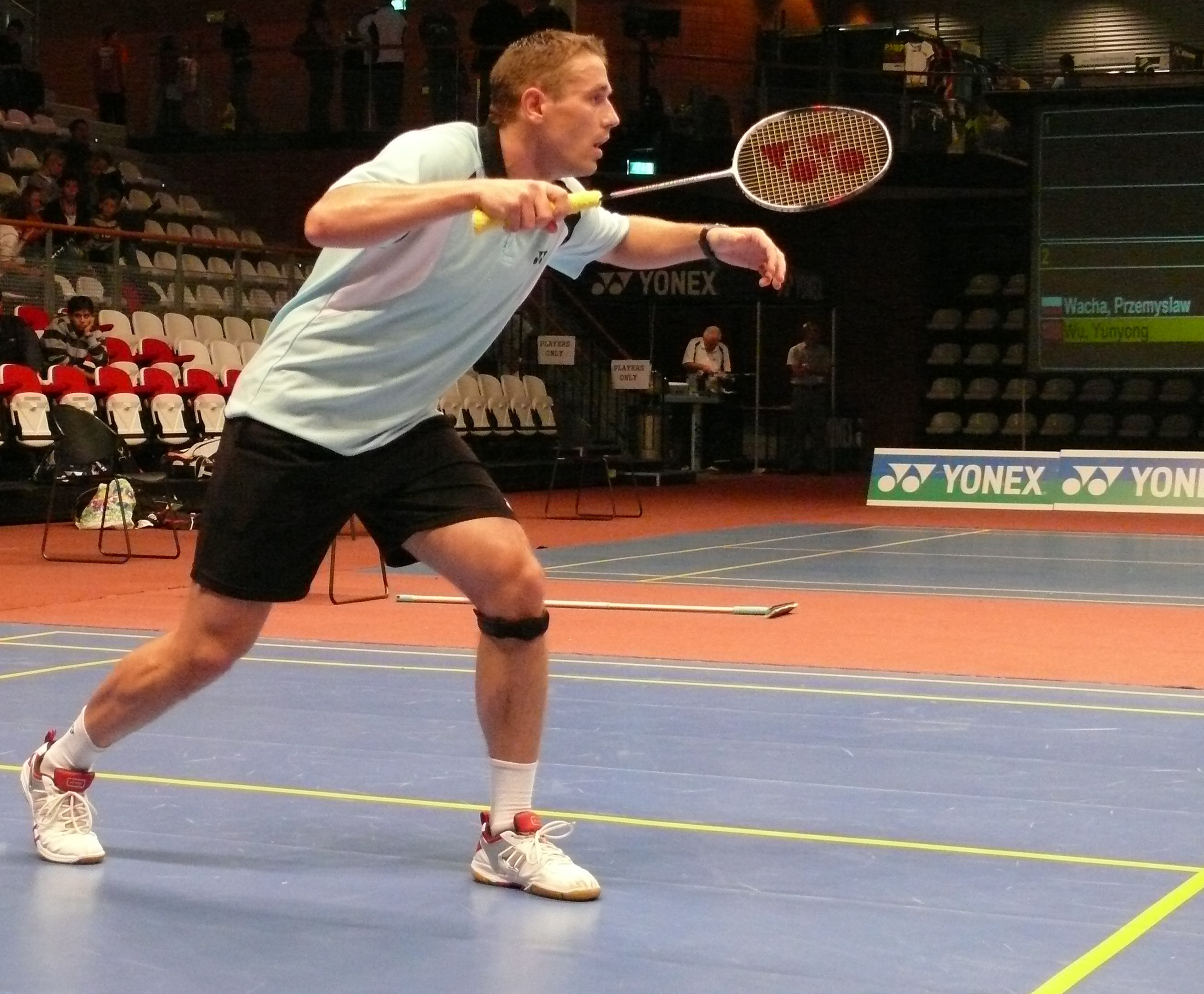 Przemysław Wacha (POLAND)